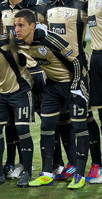 Rodrigo Moreno Machado